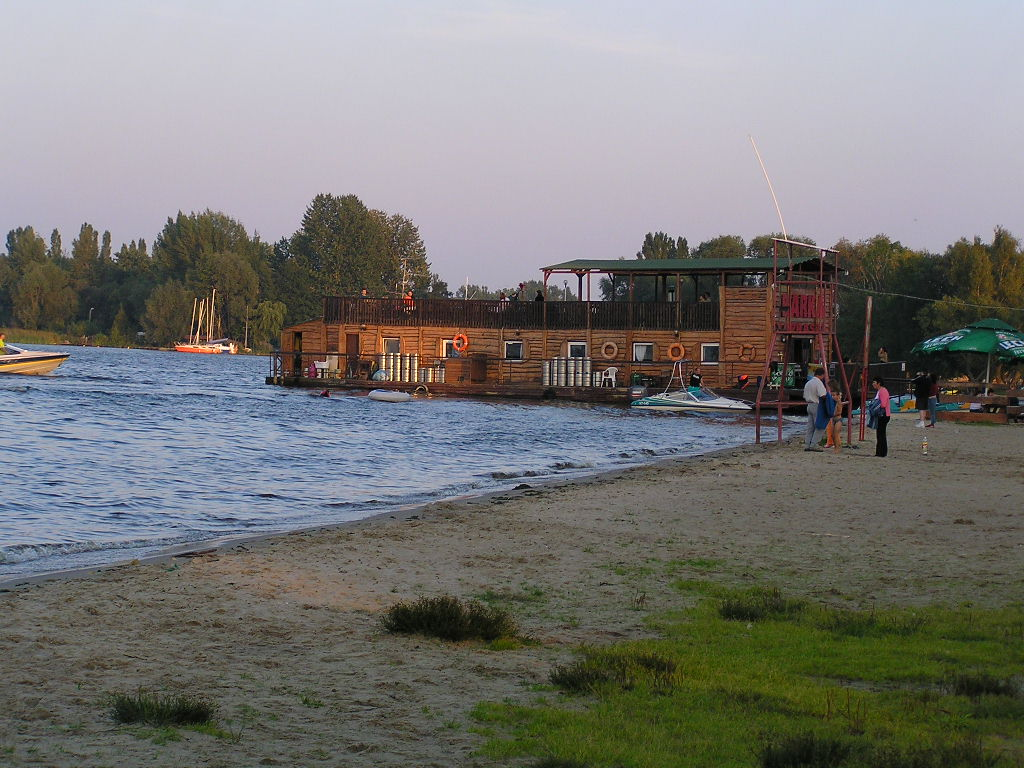 autor: Yarek shalom 08:33, 10 October 2006 (UTC)yarek shalom